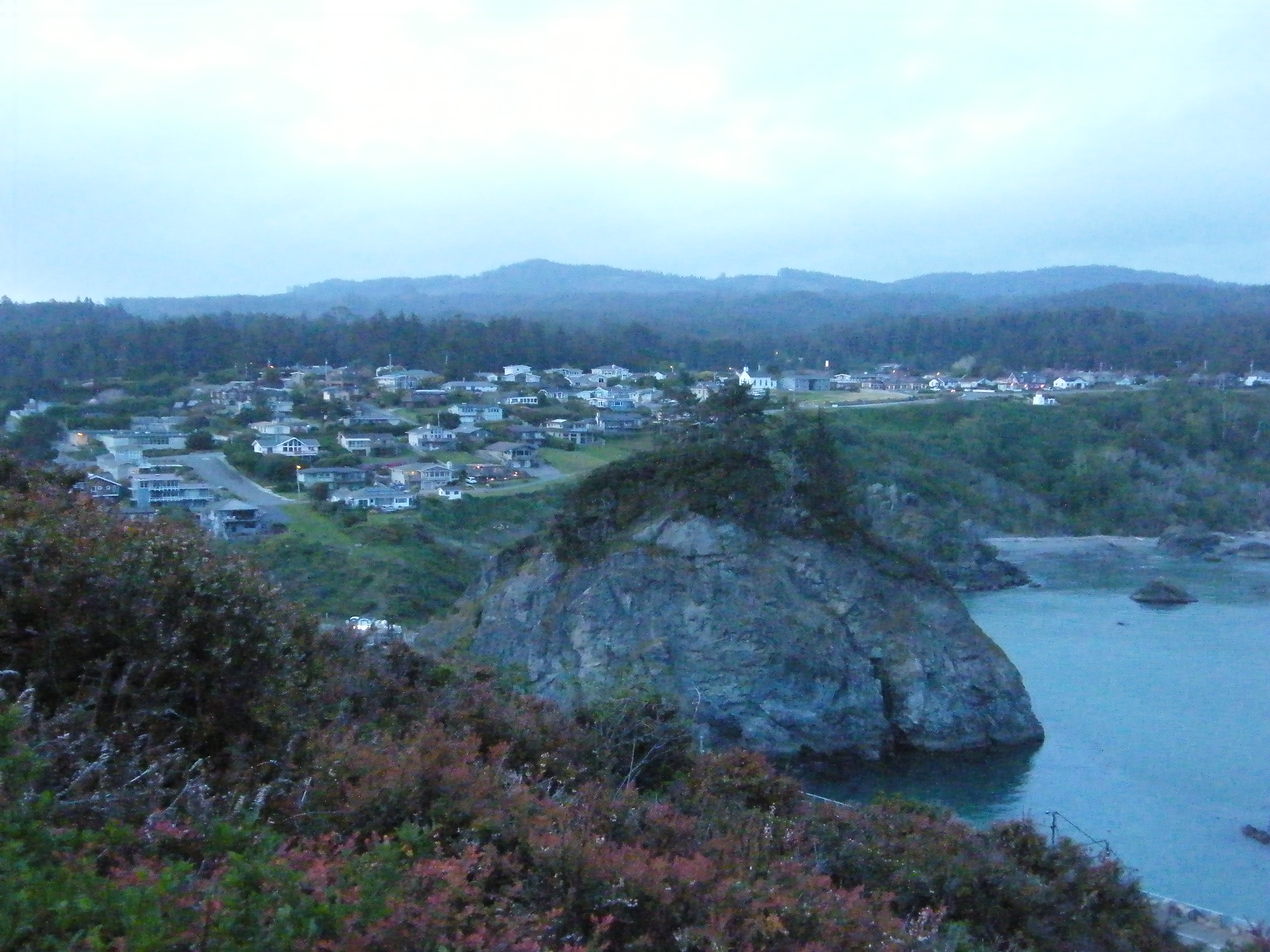 The city of Trinidad, California, USA